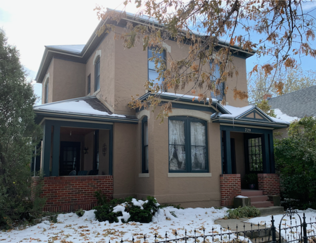 Wick-Seiler House on south-west corner of 9th Ave and Beattie, Helena, Montana, USA